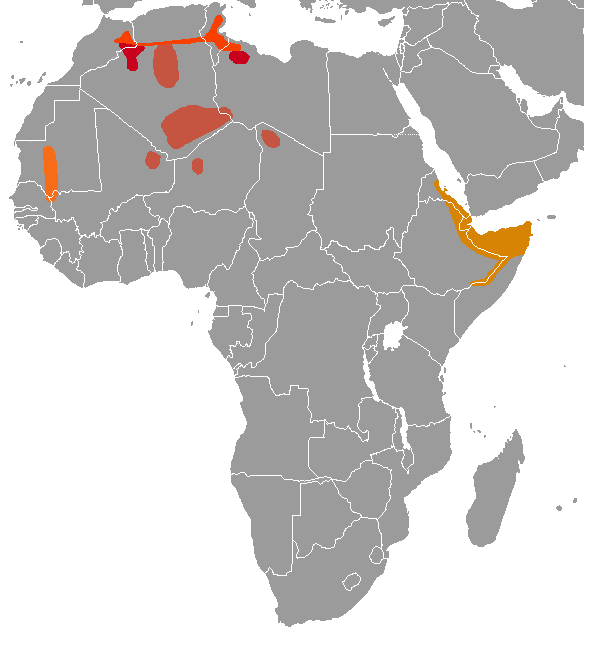 Ctenodactylidae range map